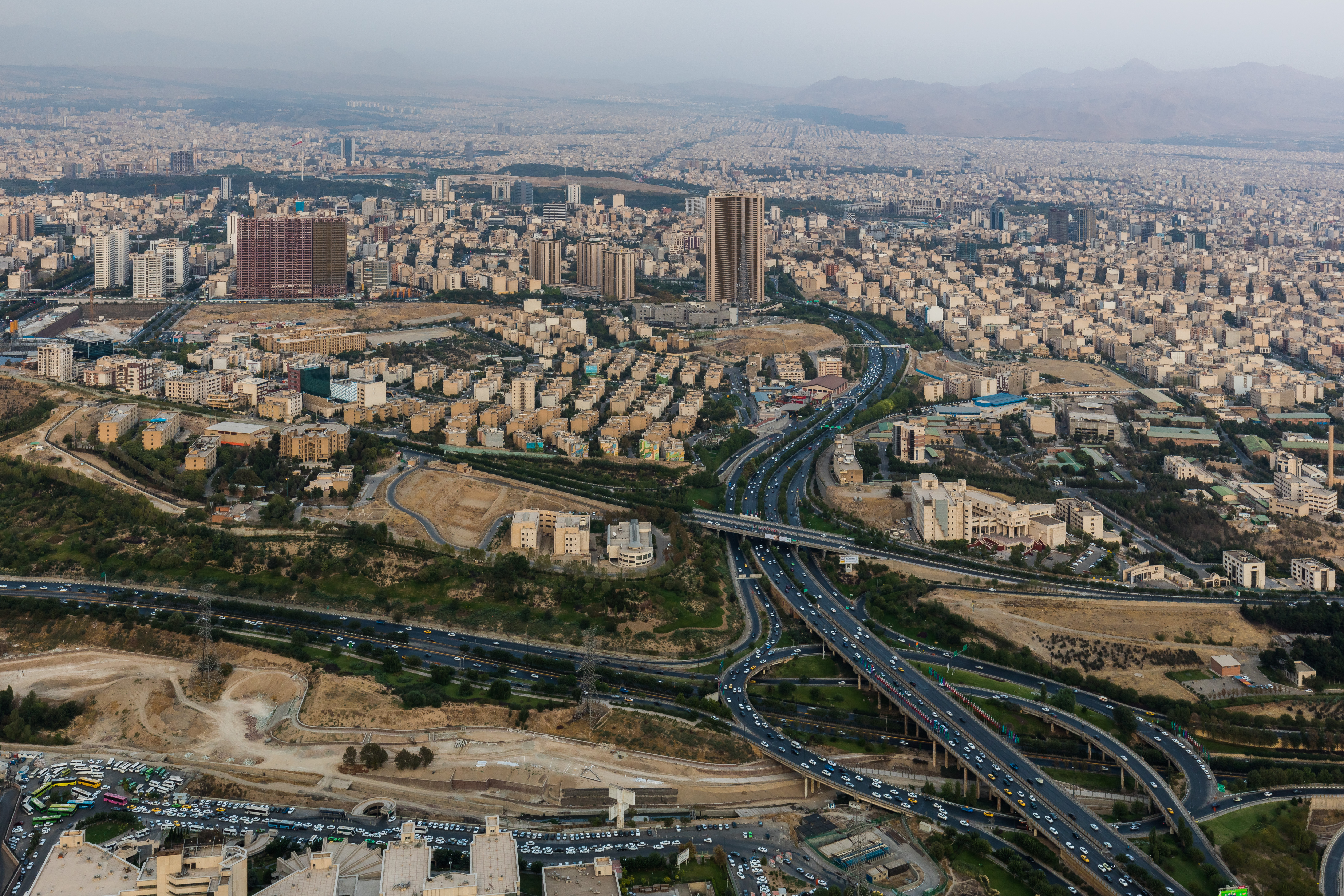 View of Tehran from Milad Tower, Iran